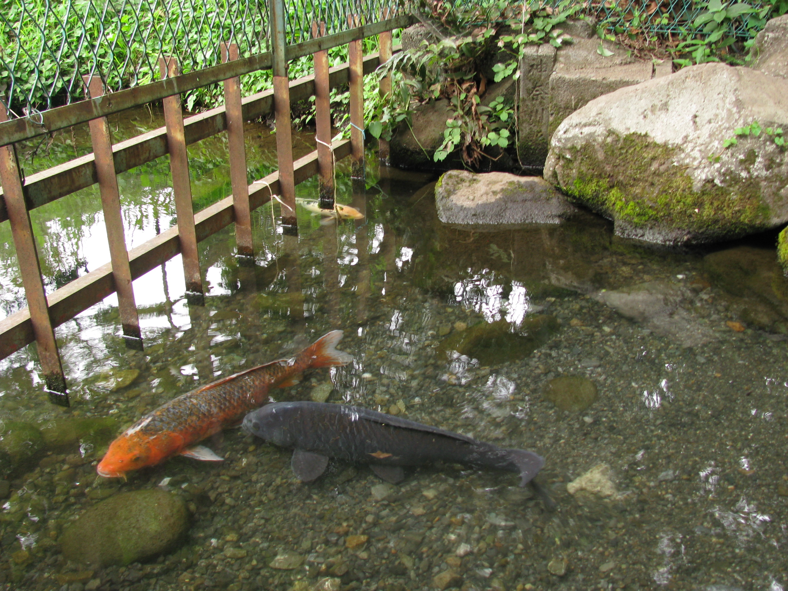 The Hikiji-gawa (river). This location is Izumi-no-mori (park) in Yamato, Kanagawa Prefecture, Japan.